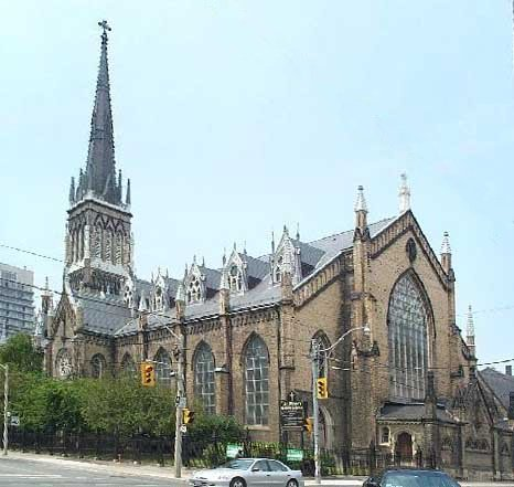 St. Michael's Cathedral in Toronto. photographs and image compositing by Montrealais